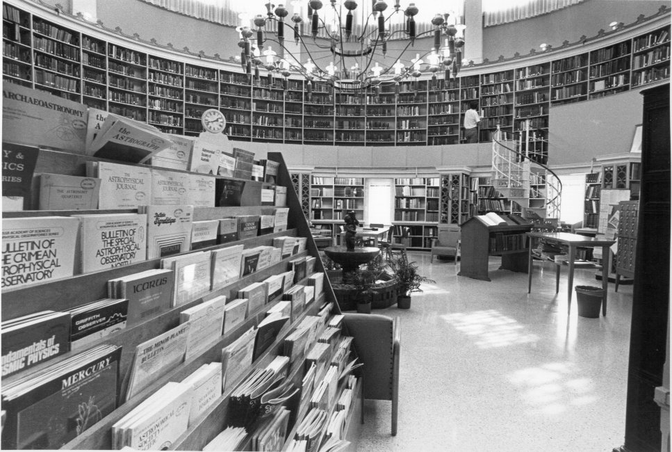 Library of the United States Naval Observatory.